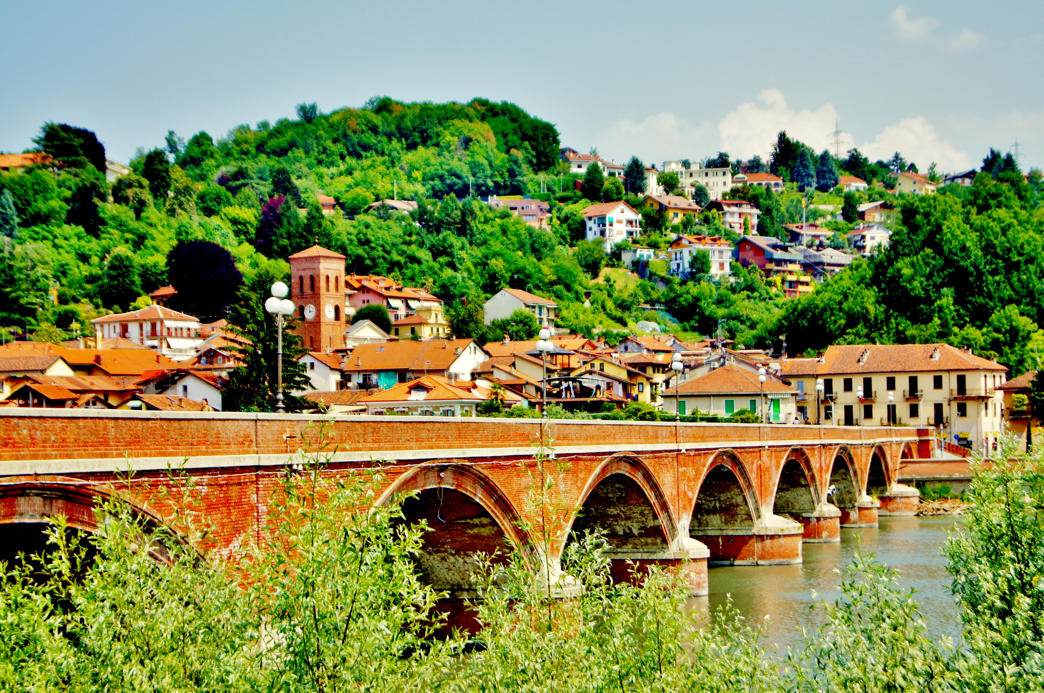 View on the bridge on Pò River.